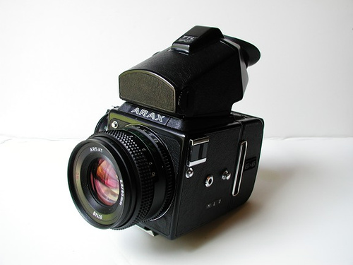 Kiev 88CM customized by Arax.